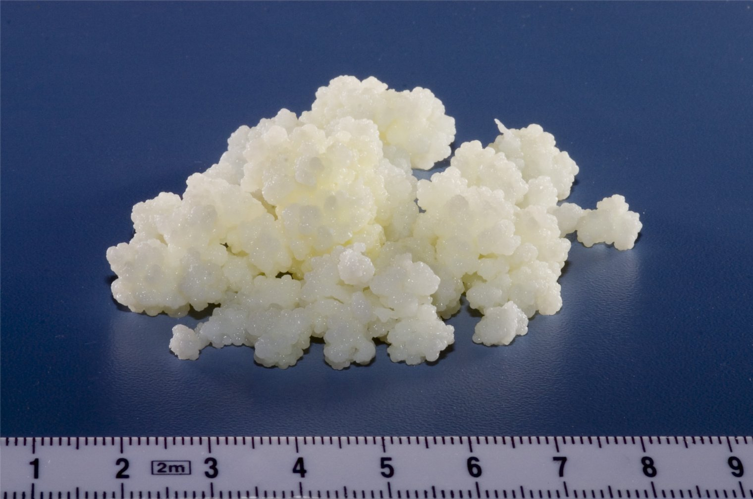 Kefir and also Kefir